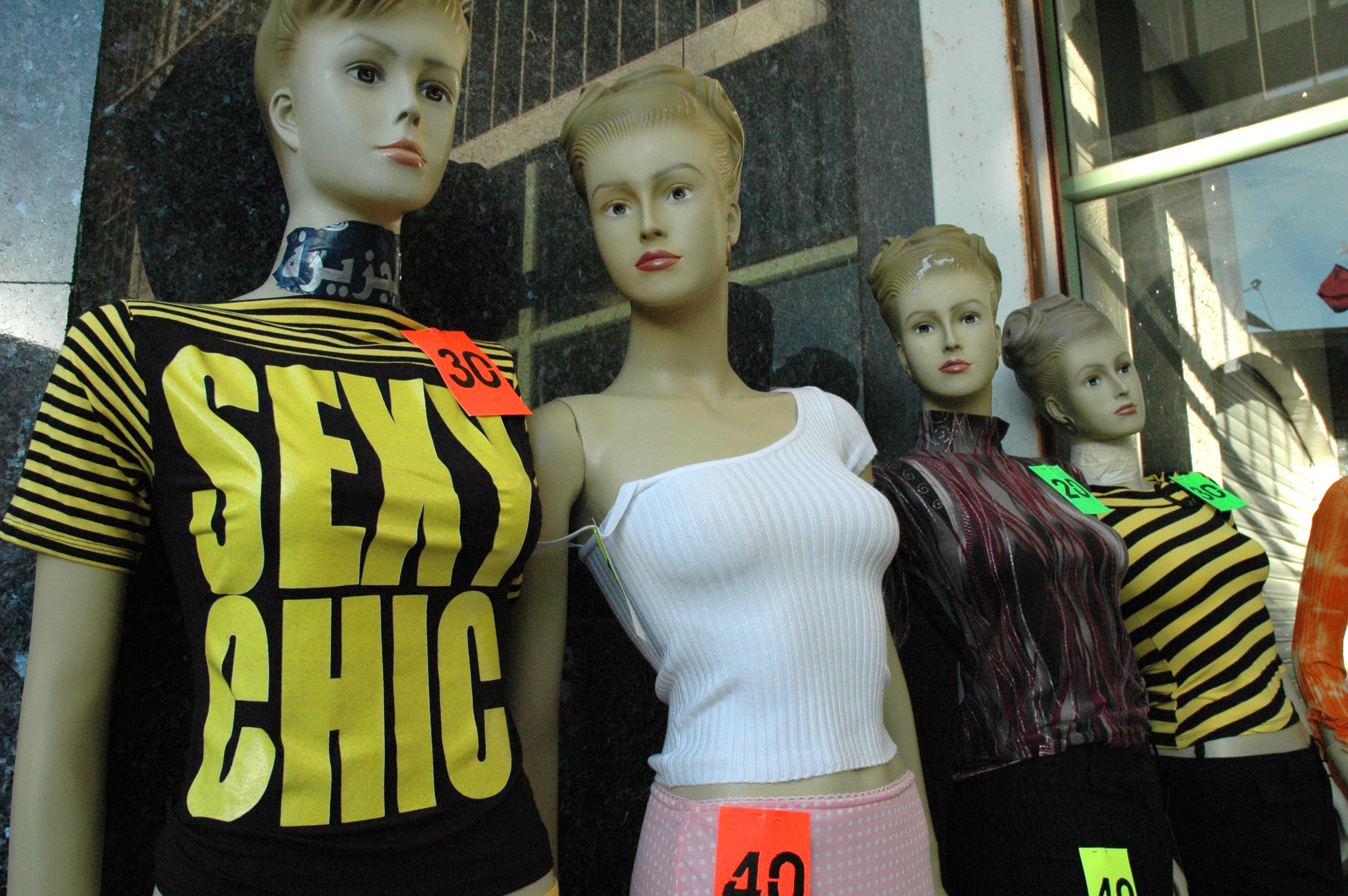 Mannequins outside a shop in Ramallah.